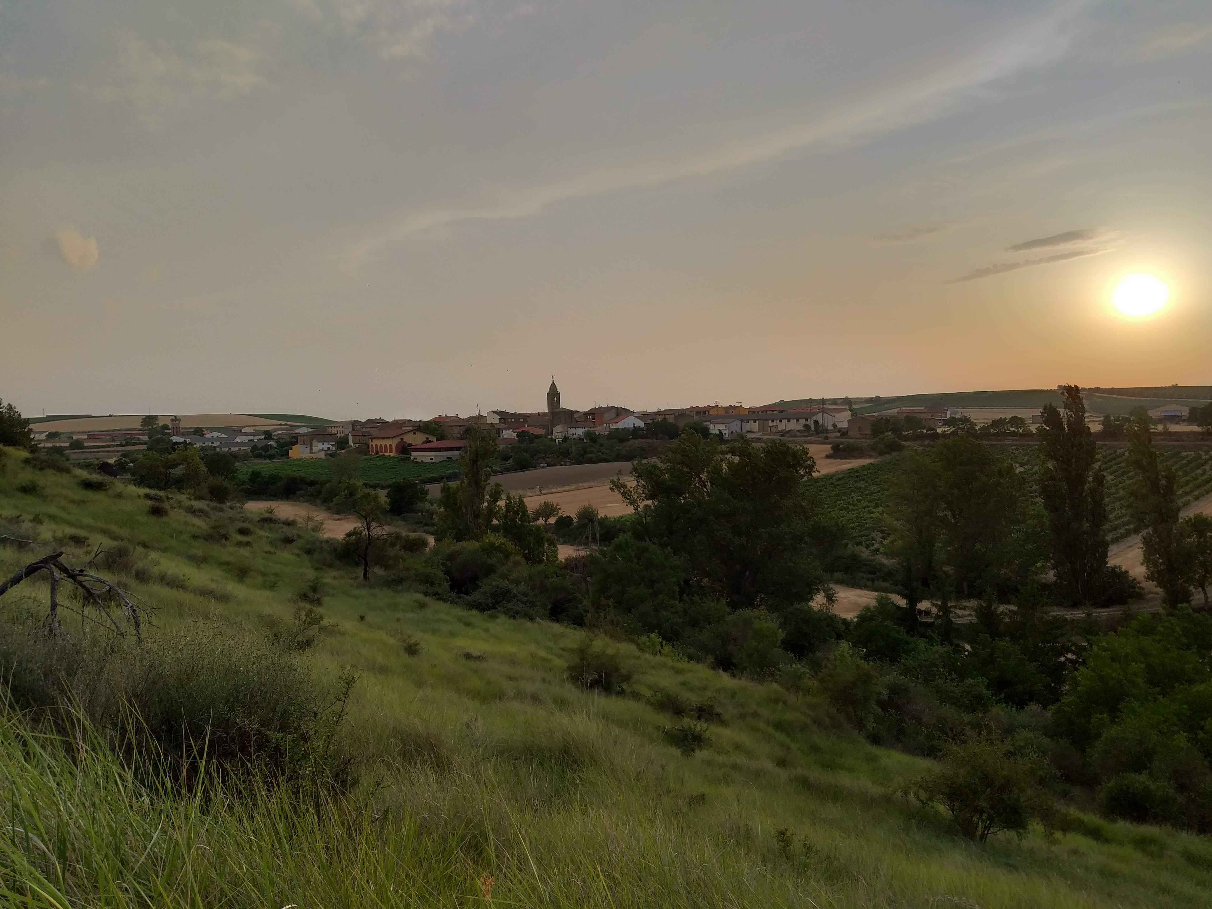 View of Rodezno from the hill of "La Encina"